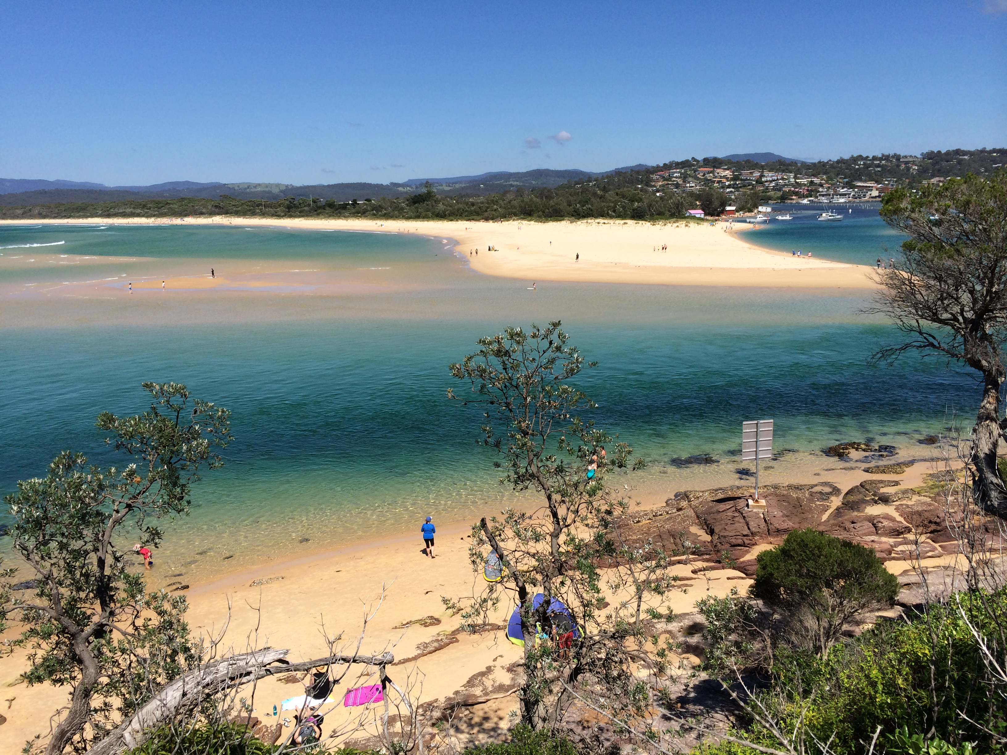 Sound